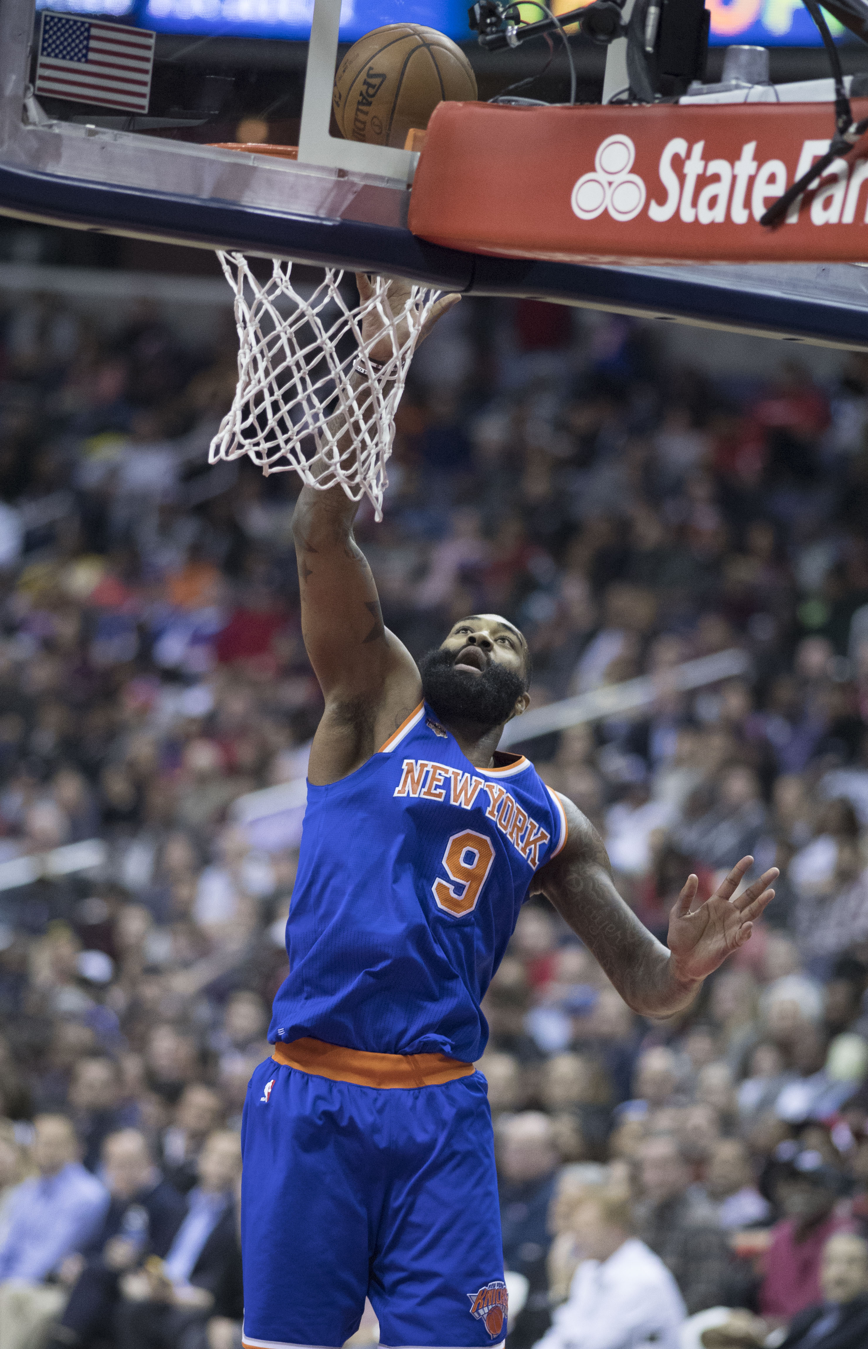 Knicks at Wizards 1/31/17